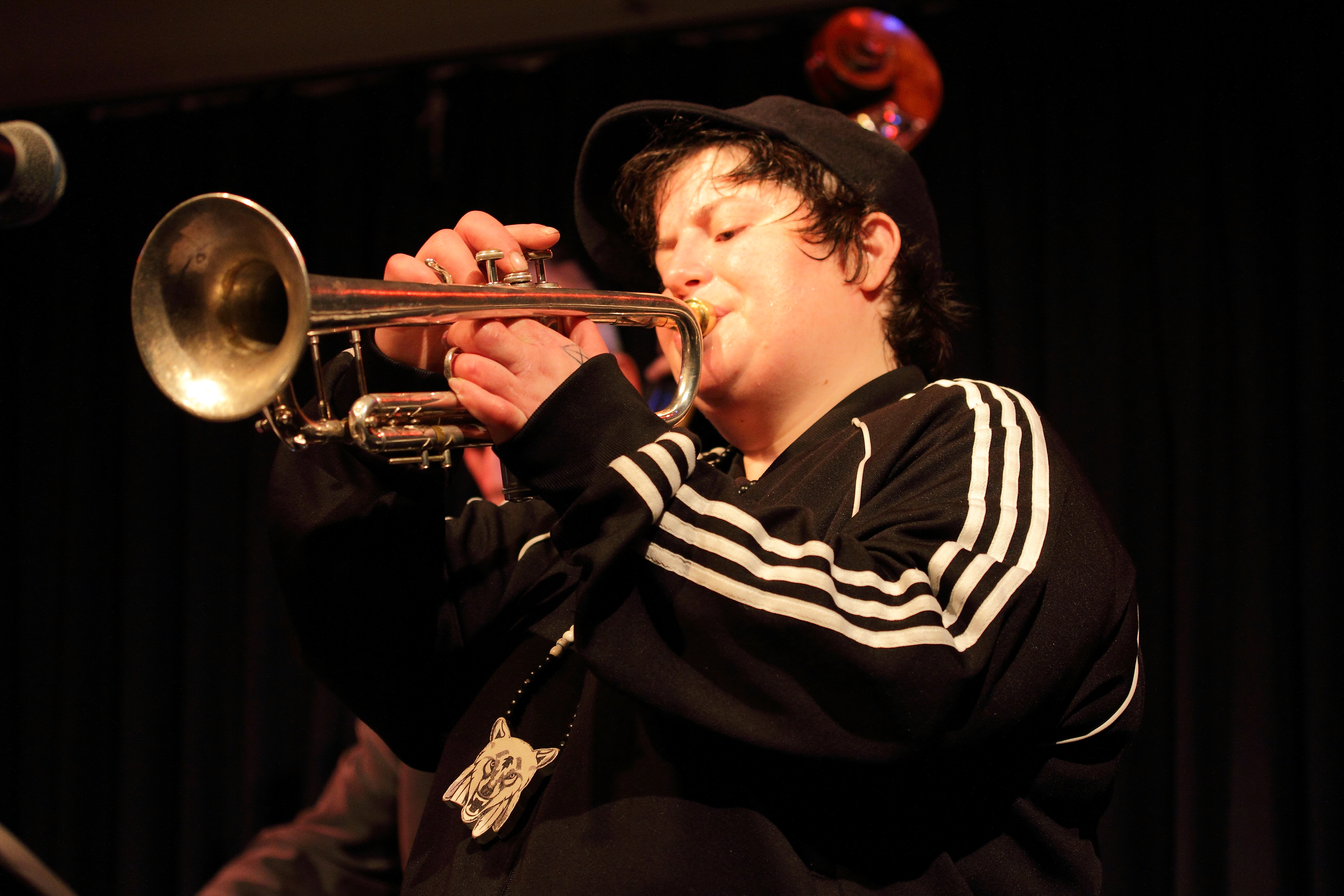 Band leader Mars Williams and his project are interpreting traditional Christmas songs and tunes of Albert Ayler. Here it´s a concert at Club W71, Weikersheim. Band members are Mars Williams (sax), Jaimie Branch (tr), Knox Chandler (g), Klaus Kugel (dr) & Mark Tokar (db).